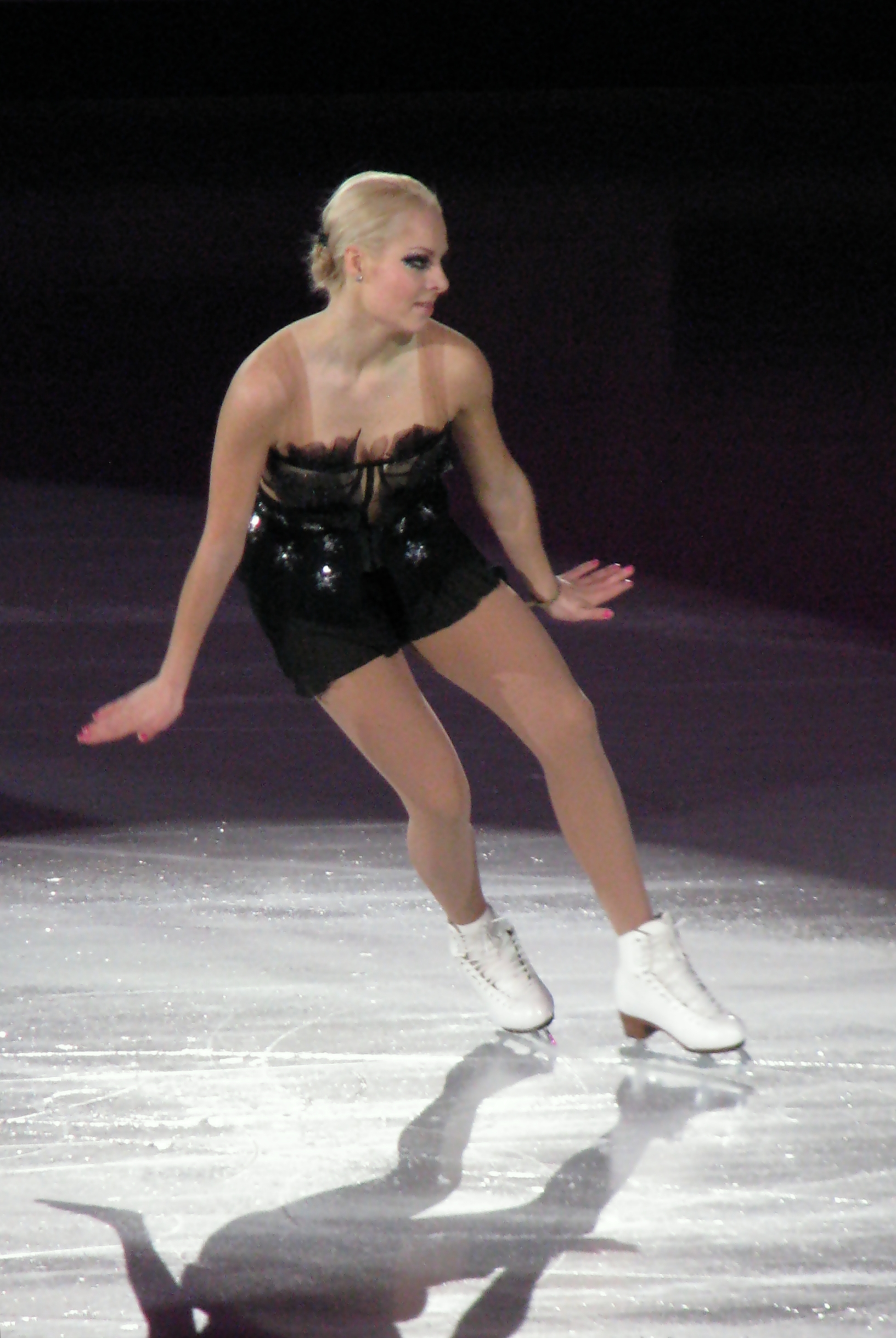 Elena Glebova in 2010 European Figure Skating Championships (Gala)